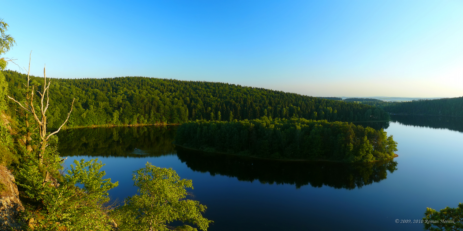 Seč dam